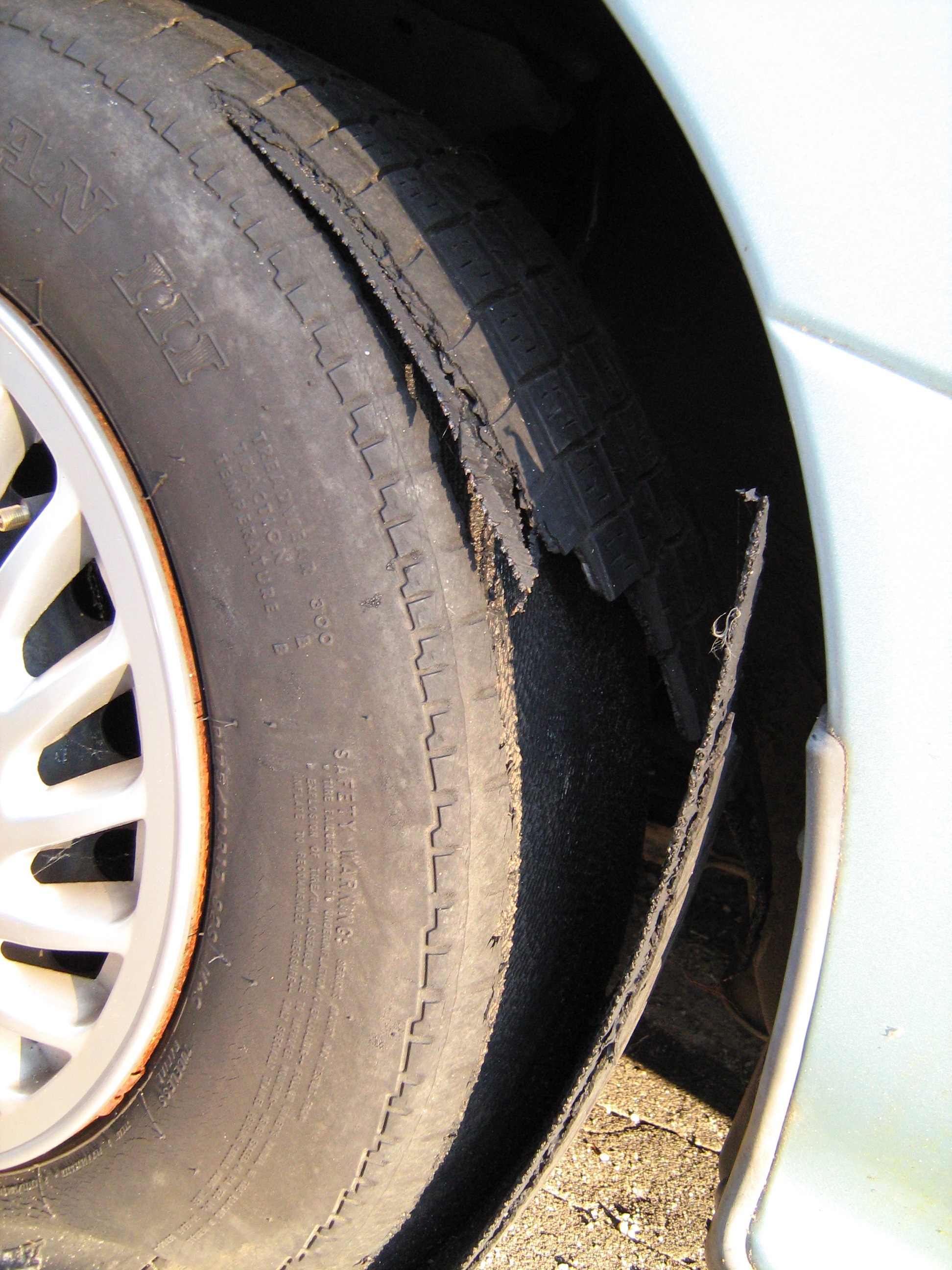 Tire with its tread separating (from the cords) making it unusable. Mounted on an automobile.